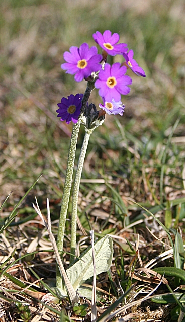 Scottish Primrose (Primula scotica) This uncommon plant grows in a few places in the far north of Scotland only. It is tiny, only a couple of inches tall, and it prefers short grass close to the sea.